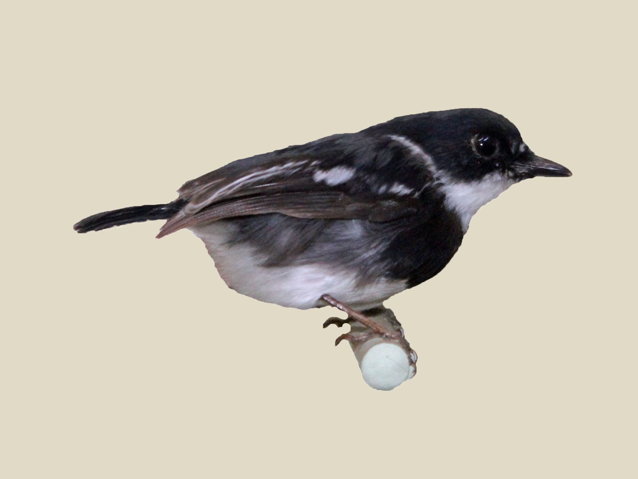 Ruwenzori Batis (Batis diops). Photograph of a specimen at Nairobi National Museum in Nairobi, Kenya. Eye color is not realistic.